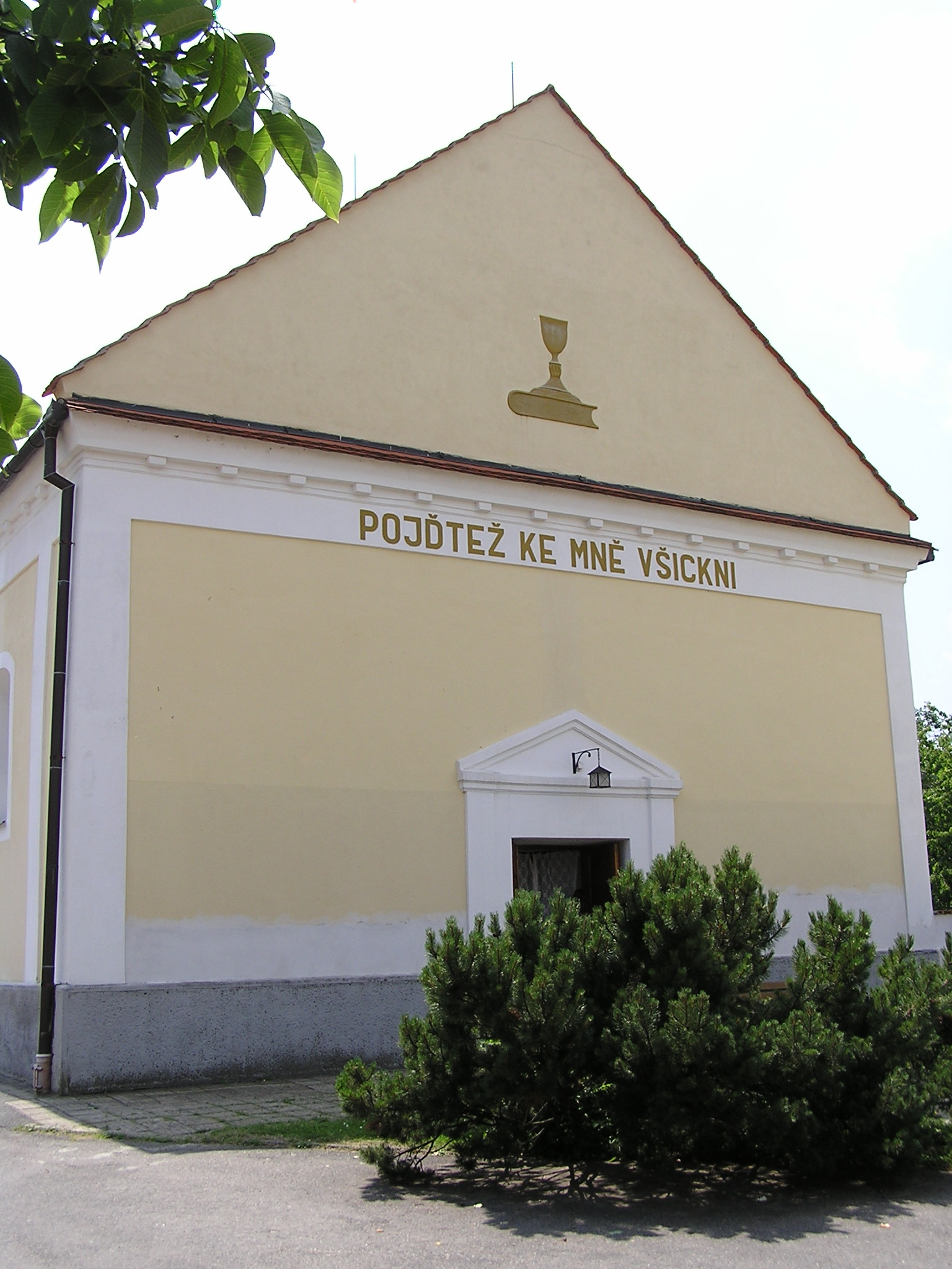 Protestant church in Javorník (nad Veličkou), Hodonín District, Czech Republic